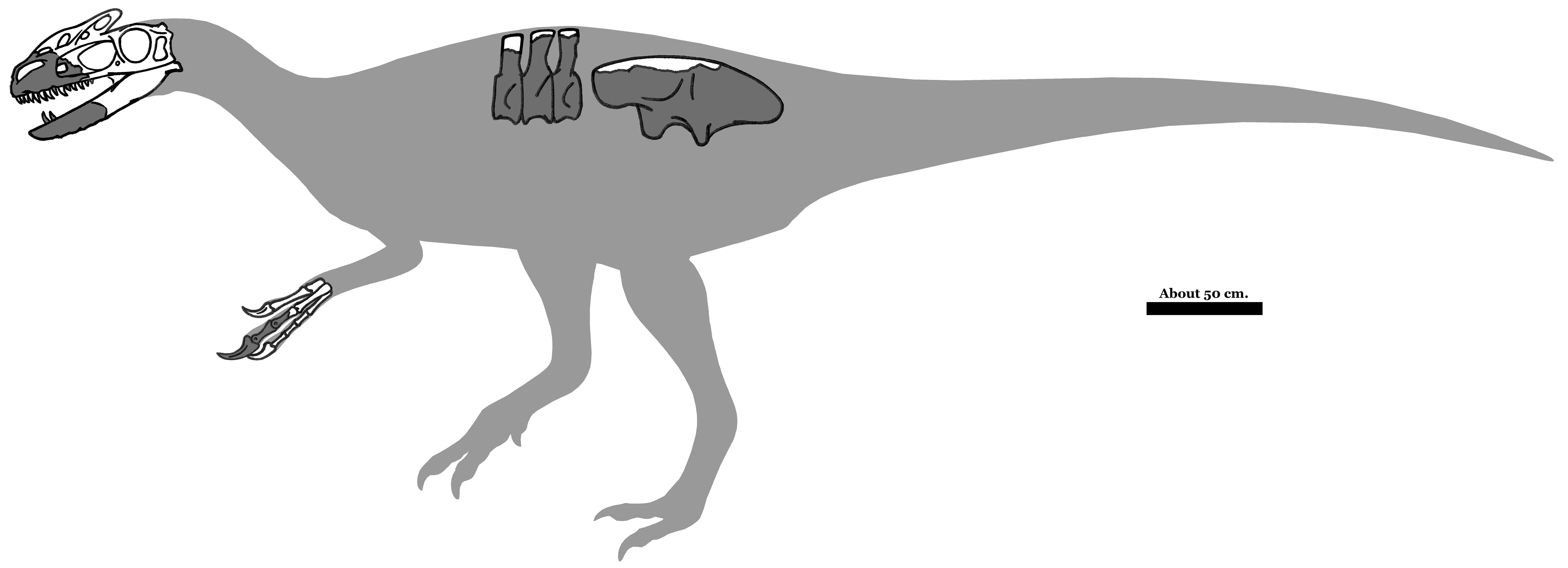 Known remains after the theropod dinosaur Sinotyrannus holotype.